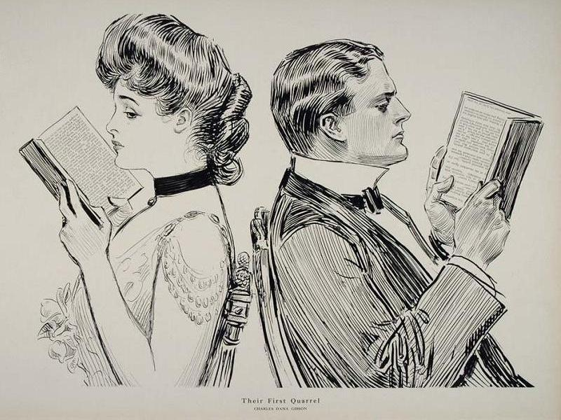 Their First Quarrel, a 1914 print by Charles Dana Gibson.